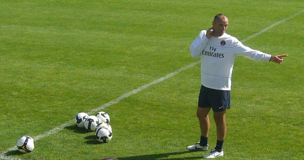 Photo of PSG manager Paul Le Guen taken at Camp des Loges in Saint-Germain en Laye.